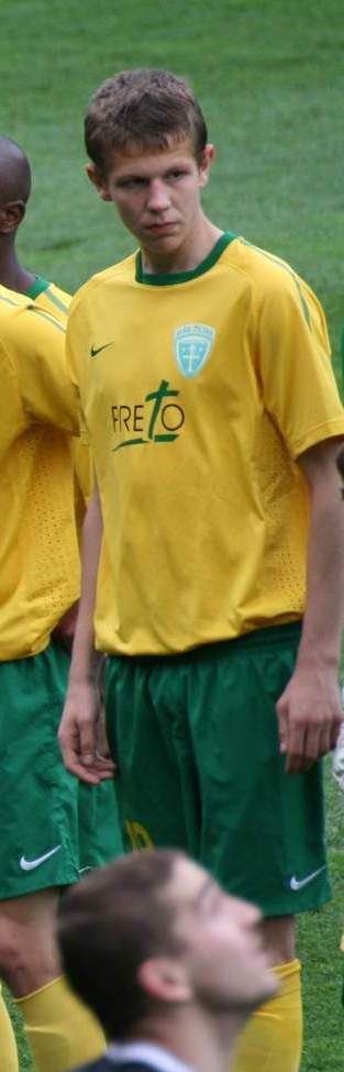 Photo of Slovak footballer Denis Vavro